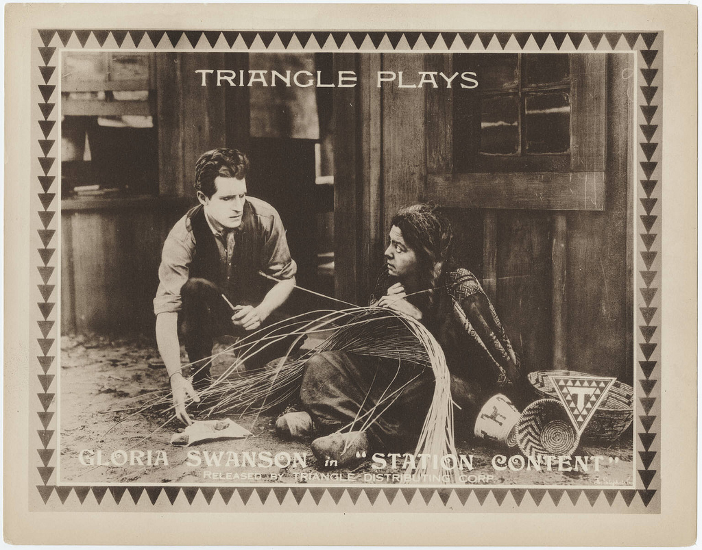 Lobby card with Gloria Swanson and Lee Hill in the 1918 American film Station Content. Approximately 28 x 35.5 cm. Part of the Western silent films lobby card collection, 1912-1930. Cite as from the Yale Collection of Western Americana, Beinecke Rare Book & Manuscript Library, Yale University. Bibliographic Record Number 2019912. View our Record Permalink.